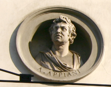 Andrea Appiani. Detail from the series of decorative busts (portraying "distinguished Italians") on the facade Palazzo Brentani, in via Manzoni street at Milan(1829/30). Picture by Giovanni Dall'Orto, April 14 2007.